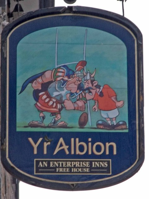 Yr Albion, Llanrwst Rather Asterix & Obelix, isn't it?